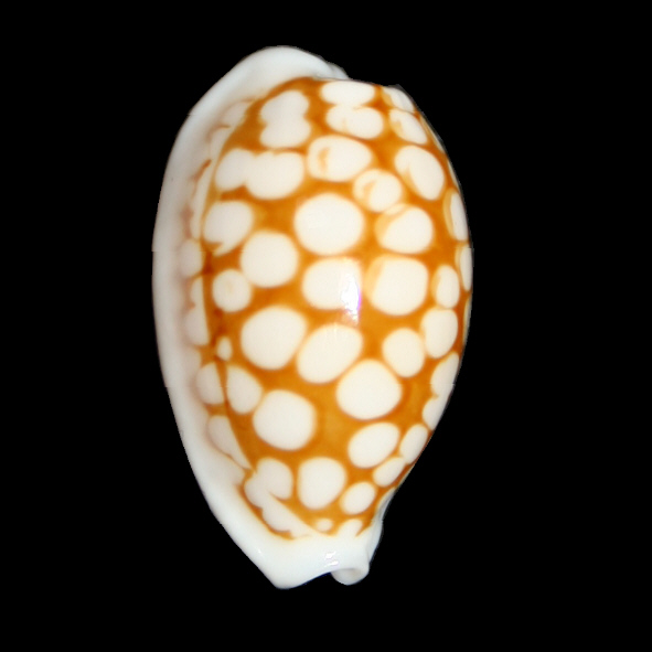 Cribrarula cribraria has become the accepted name for Cypraea cribaria.